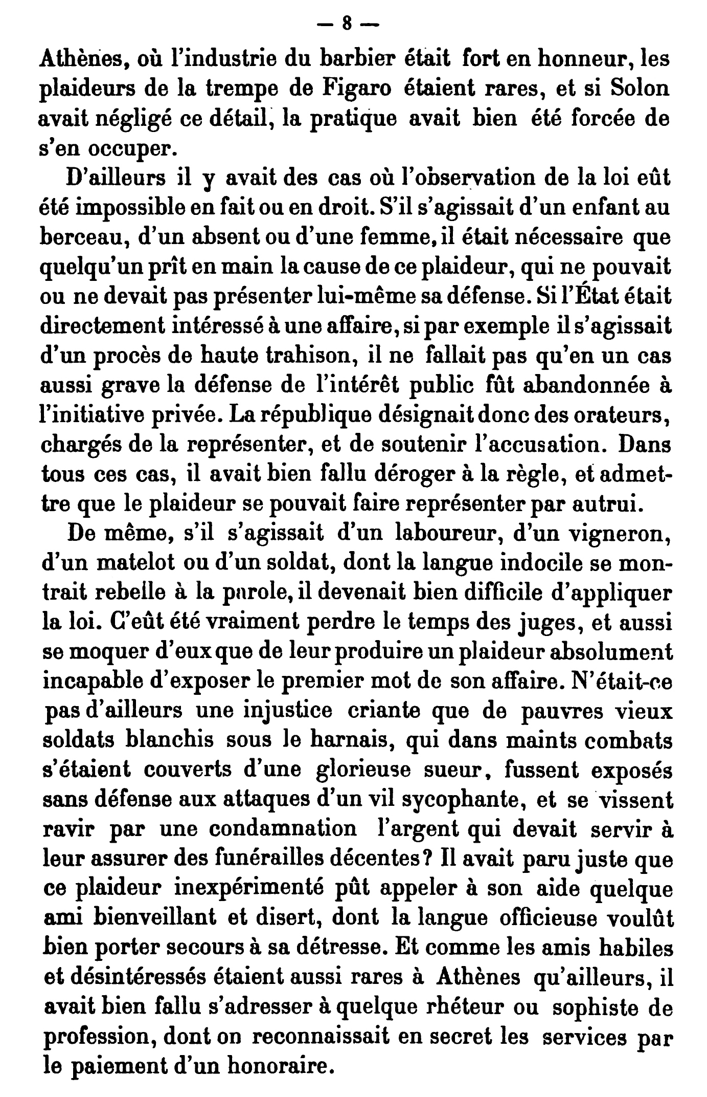 Page 8 from public domain book: André Morillot, "De L'Eloquence Judiciaire a Athenes," Discours Prononce a l'Ouverture de la Conference des Avocats. Le 15 Novembre 1873. Paris. Rue Soufflot. p. 8.